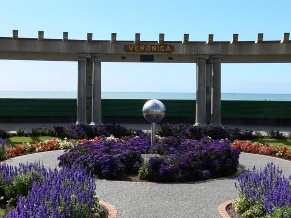 Veronica Sun-bay overlooking the Pacific Ocean on Marine Parade in Napier, New Zealand.